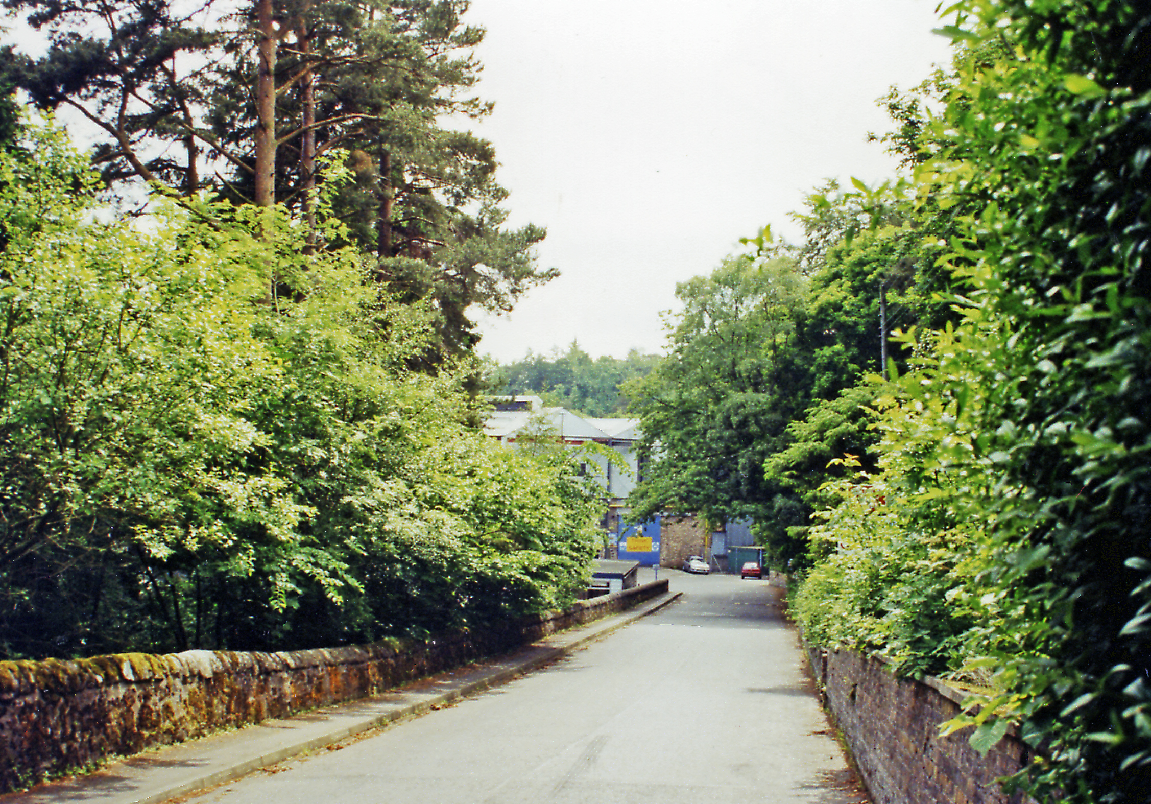 Approach to site of Auchendinny station, 2000. The station, closed 5/3/51, had been on the ex-NBR (Edinburgh) - Bonnyrigg - Penicuick branch, which lost its passenger service from 10/9/51 but remained open for goods until 27/3/67. A factory has been built on the site.